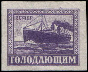 RSFSR Pomgol semi-postal stamps, 1922, 25 r. each but denomination is not printed, CPA 50, Scott B34